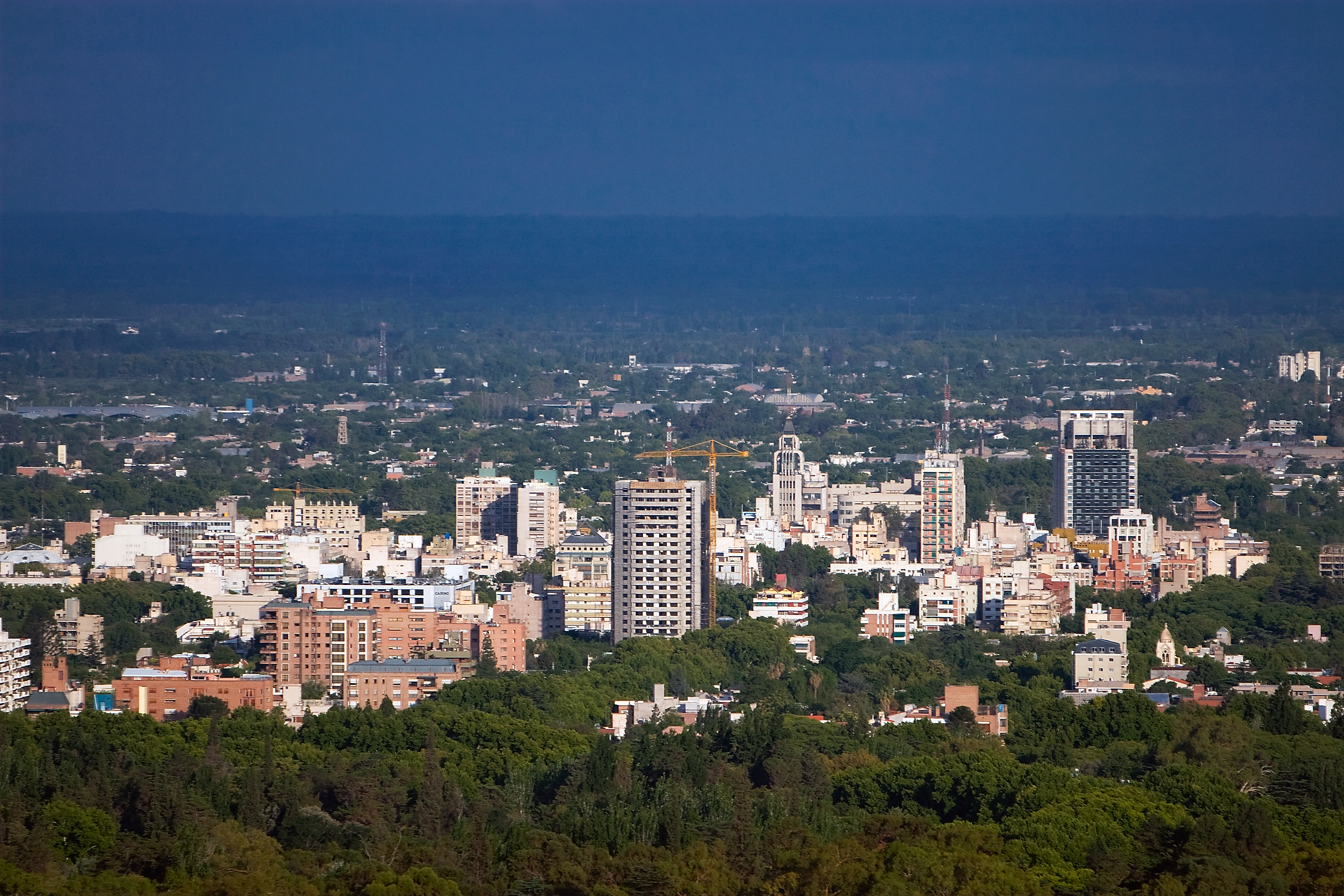 View from Cerro De La Gloria looking east towards Mendoza.